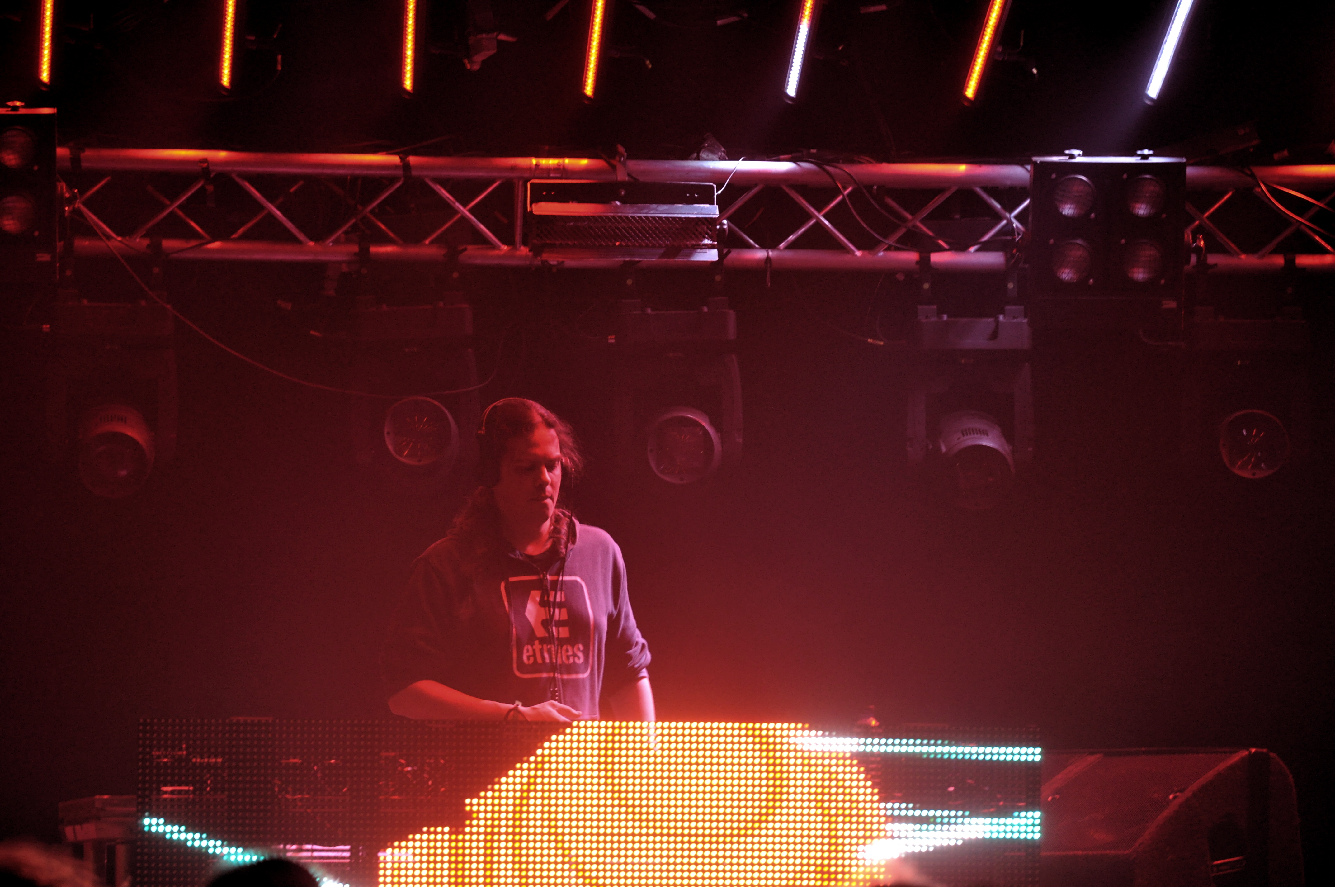 Black Sun Empire at Paspop 2013, Schijndel, NL